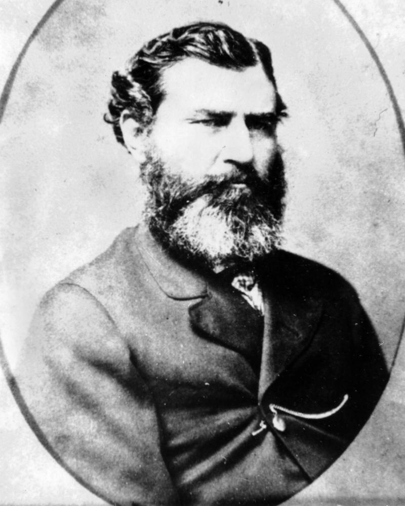 Inspector John Murray, Native Police, ca. 1866. Caption under photograph reads: Inspector John Murray, Native Police. John Murray was Inspector of Police for Cardwell, Qld, from 1 July 1864 until 1869. He is depicted in a high fastening suit and knotted tie. He has a fob chain fastened to a suit button. Indigenous participation in policing was formalized around 1840 with the Aboriginal Police of Port Phillip District. The Northern NSW Native Police began in 1848. The Northern Force became the Queensland Native Police administered by the NSW Government until 1856 and then the Queensland Government, until their disbanding around the end of the 19th century.